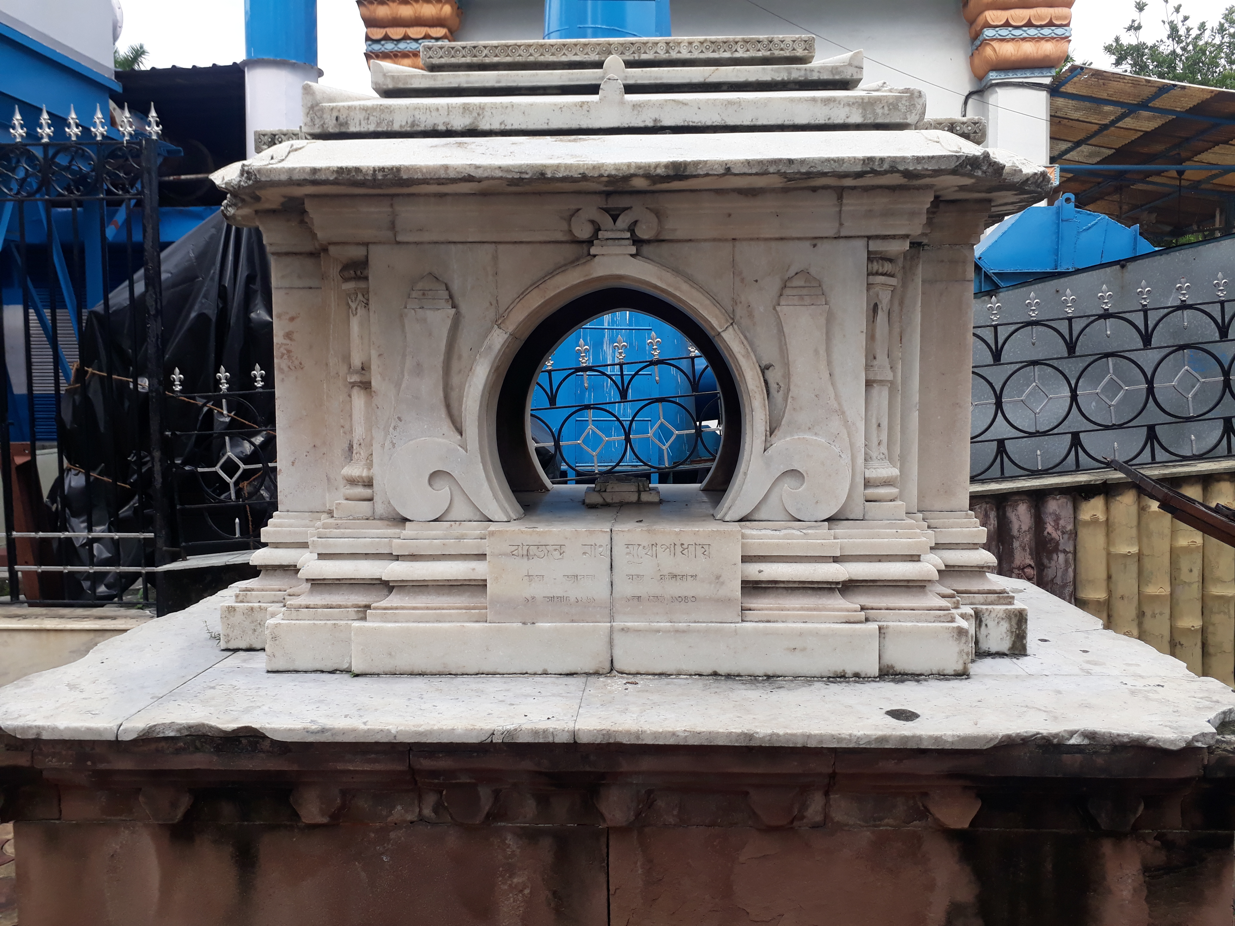 Keoratola crematorium and adjacent Samadhi sthal in Kolkata, West Bengal